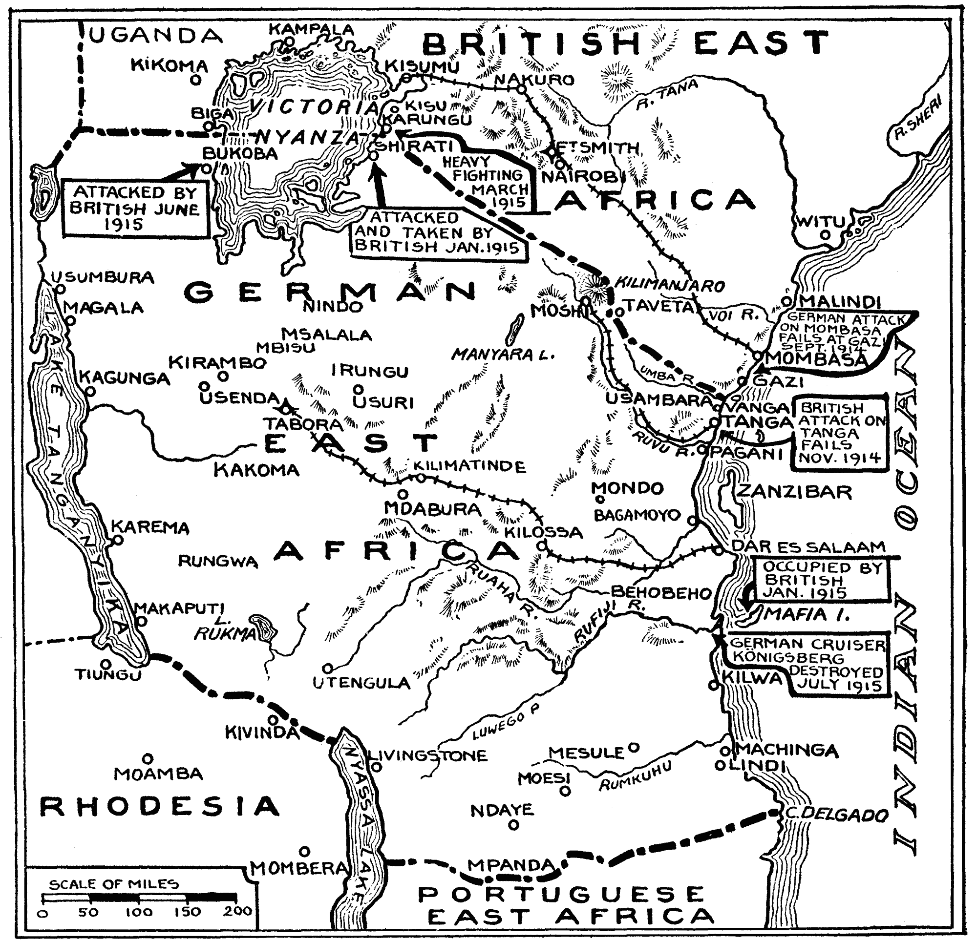 Map showing the war in East Africa, up to August 1915.